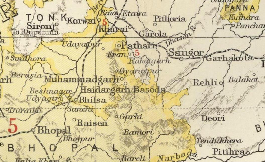 1909 Imperial Gazetteer of India Central India map section